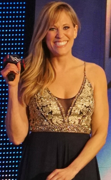 Lilian Garcia at the 2018 WWE Hall of Fame ceremony in April 2018